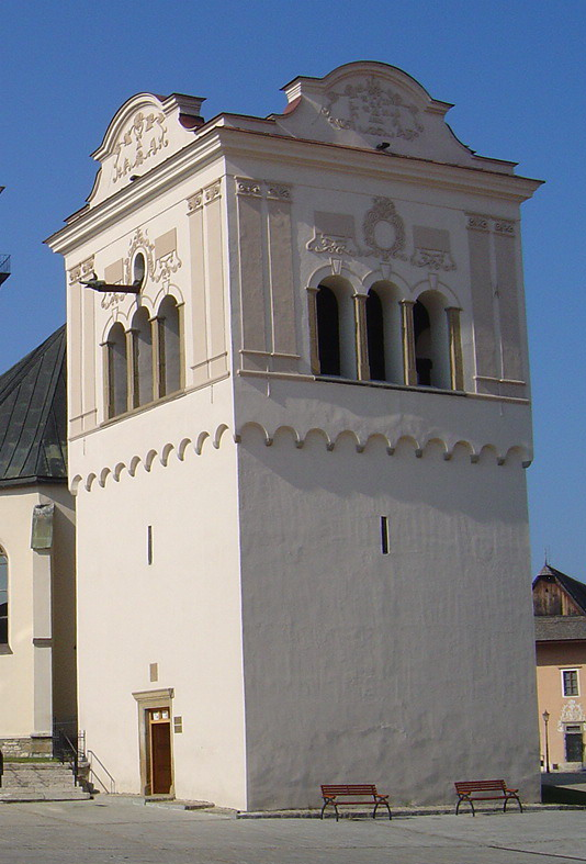 Spišská Sobota square